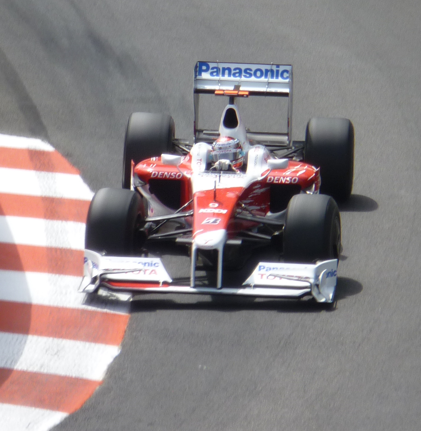 Jarno Trulli driving for Toyota F1 at the 2009 Monaco Grand Prix.